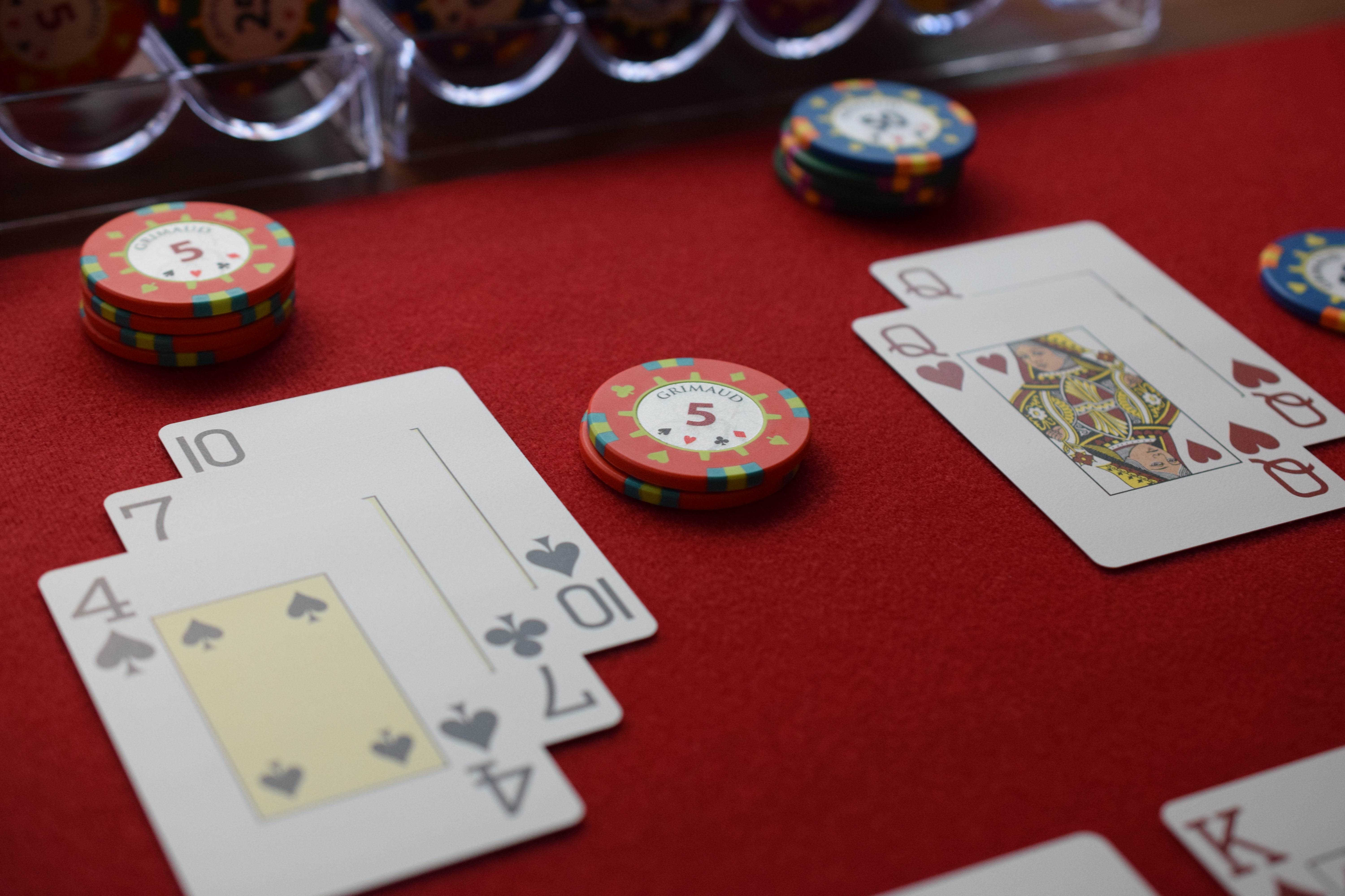 Close-up of a private Blackjack game.